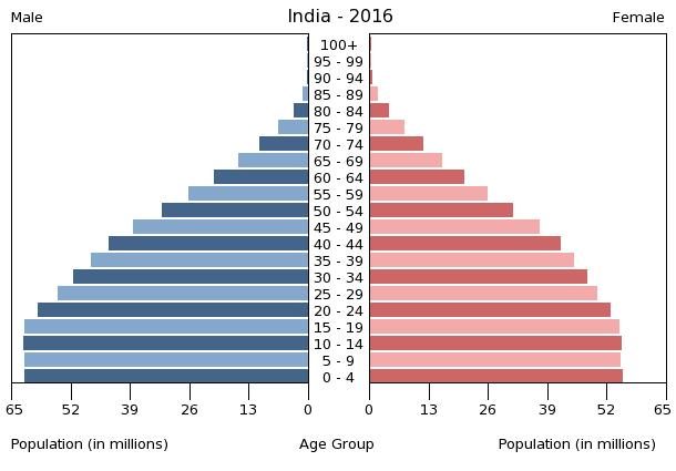 A population pyramid illustrates the age and sex structure of population and may provide insights about political and social stability, as well as economic development. The population is distributed along the horizontal axis, with males shown on the left and females on the right. The male and female populations are broken down into 5-year age groups represented as horizontal bars along the vertical axis, with the youngest age groups at the bottom and the oldest at the top. The shape of the population pyramid gradually evolves over time based on fertility, mortality, and international migration trends.